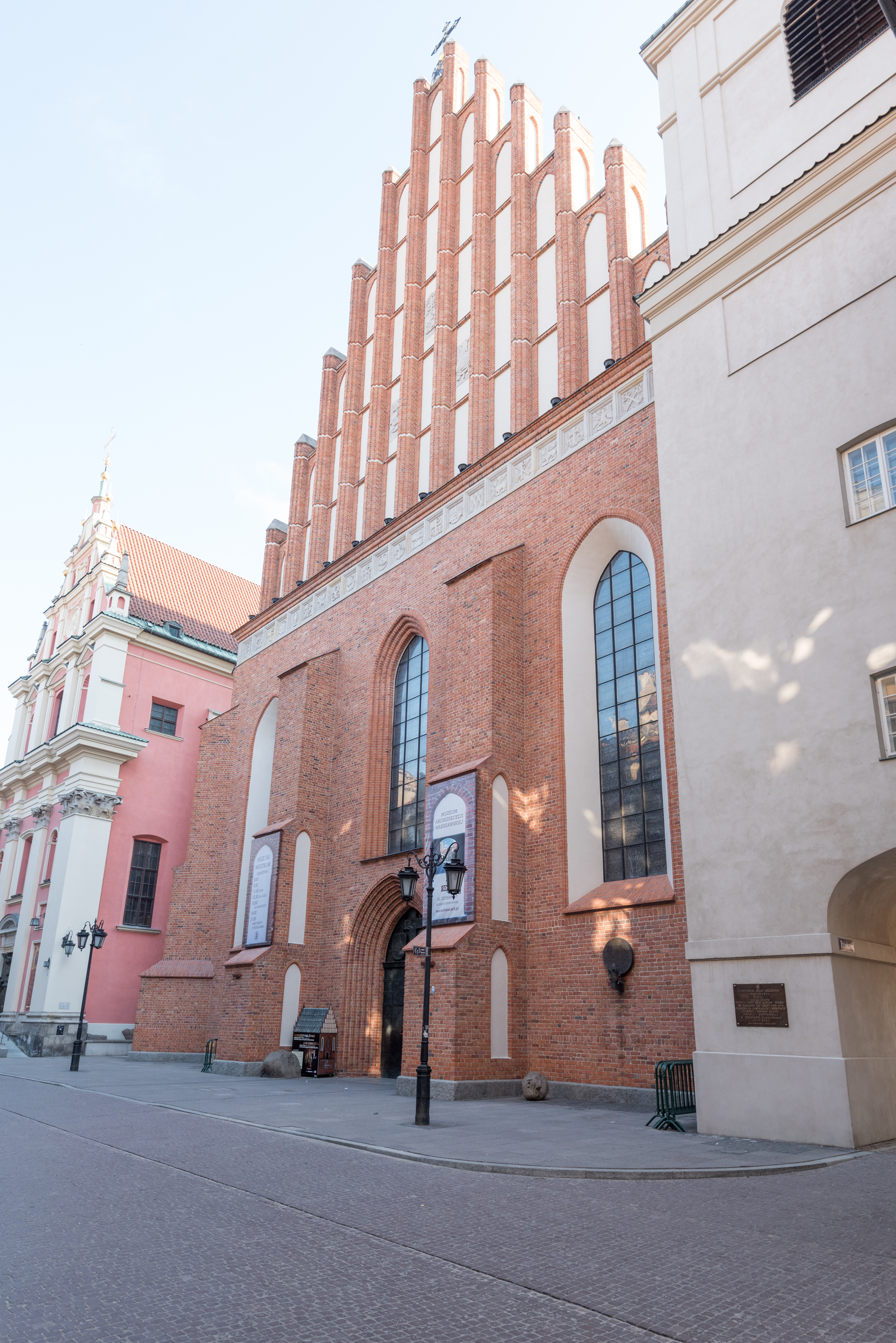 Warszawa, pl. Grzybowski 3-5